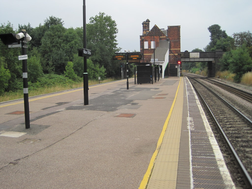 Water Orton railway station. Opened in 1909 by the Midland Railway on the line from Derby to Birmingham, this replaced an earlier station slightly further east. View east towards Kingsbury and Derby (left) and Coleshill and Nuneaton (right).